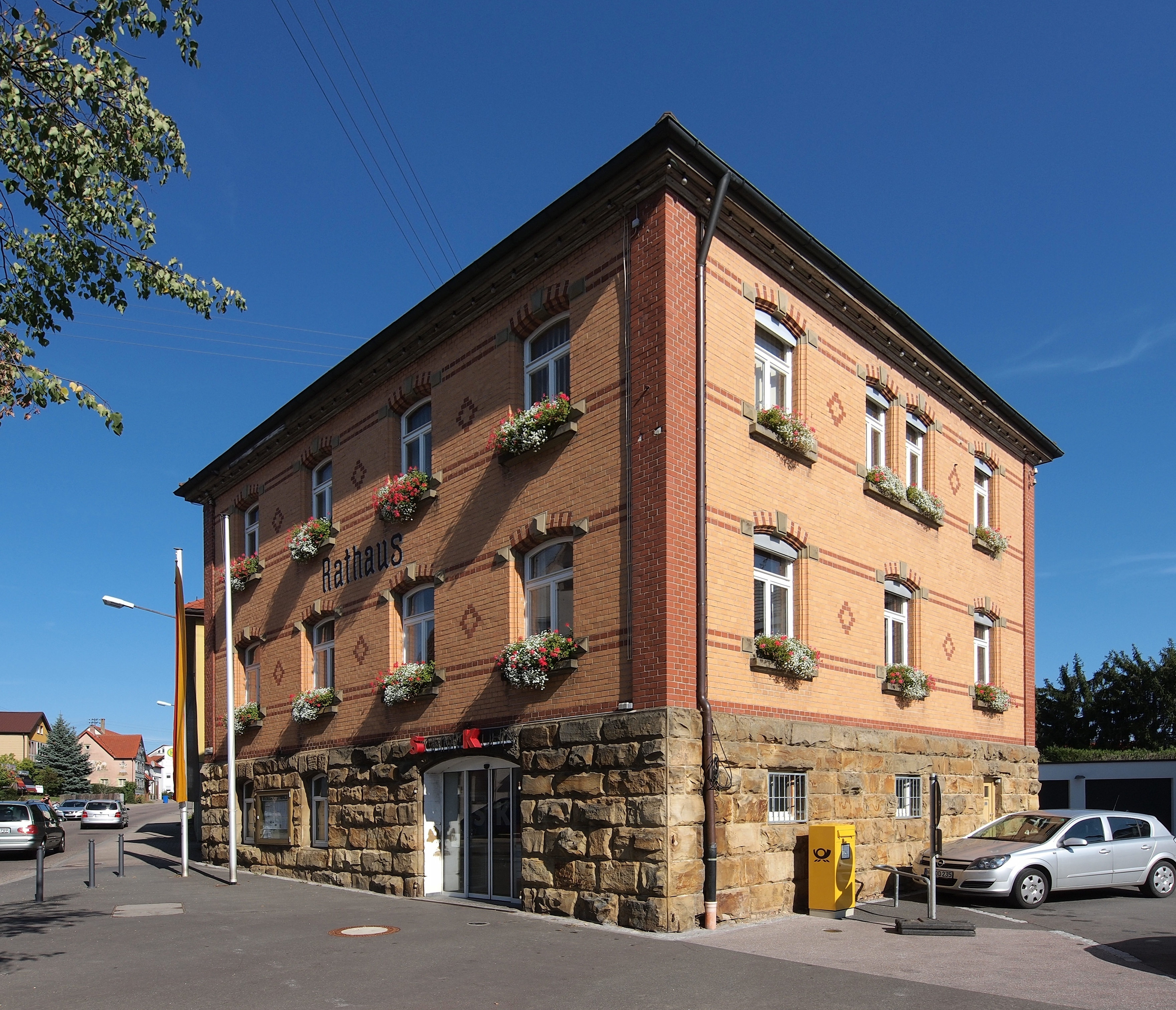 Bettringen Town Hall, Schwäbisch Gmünd, Germany